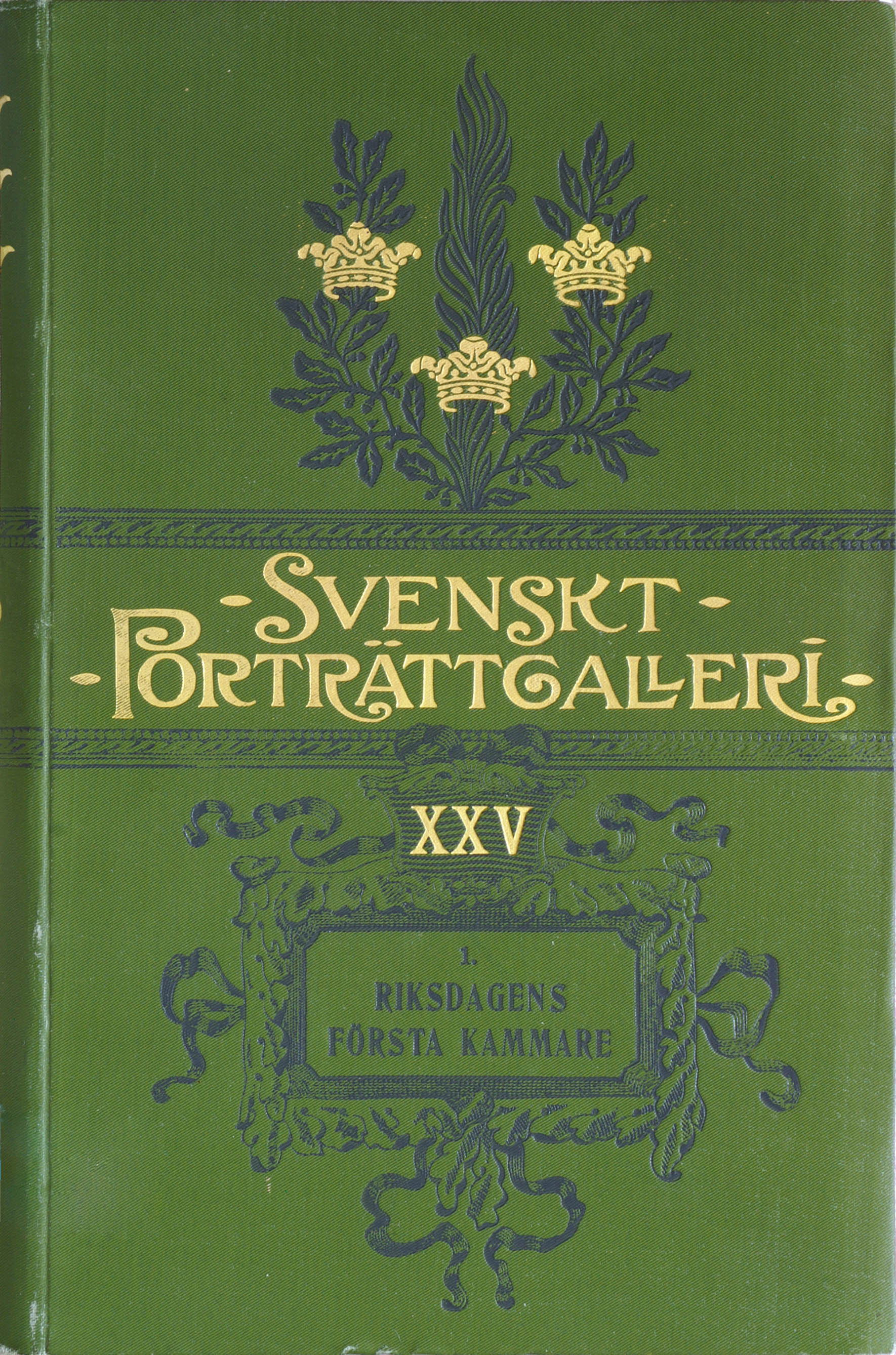 Front cover of "Svenskt porträttgalleri avdelning XXV häfte 1, 1904" (Swedish portrait gallery section XXV booklet 1)